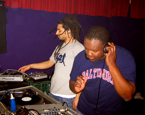 Mala and Joe Nice at DMZ 3rd Bass, Brixton London